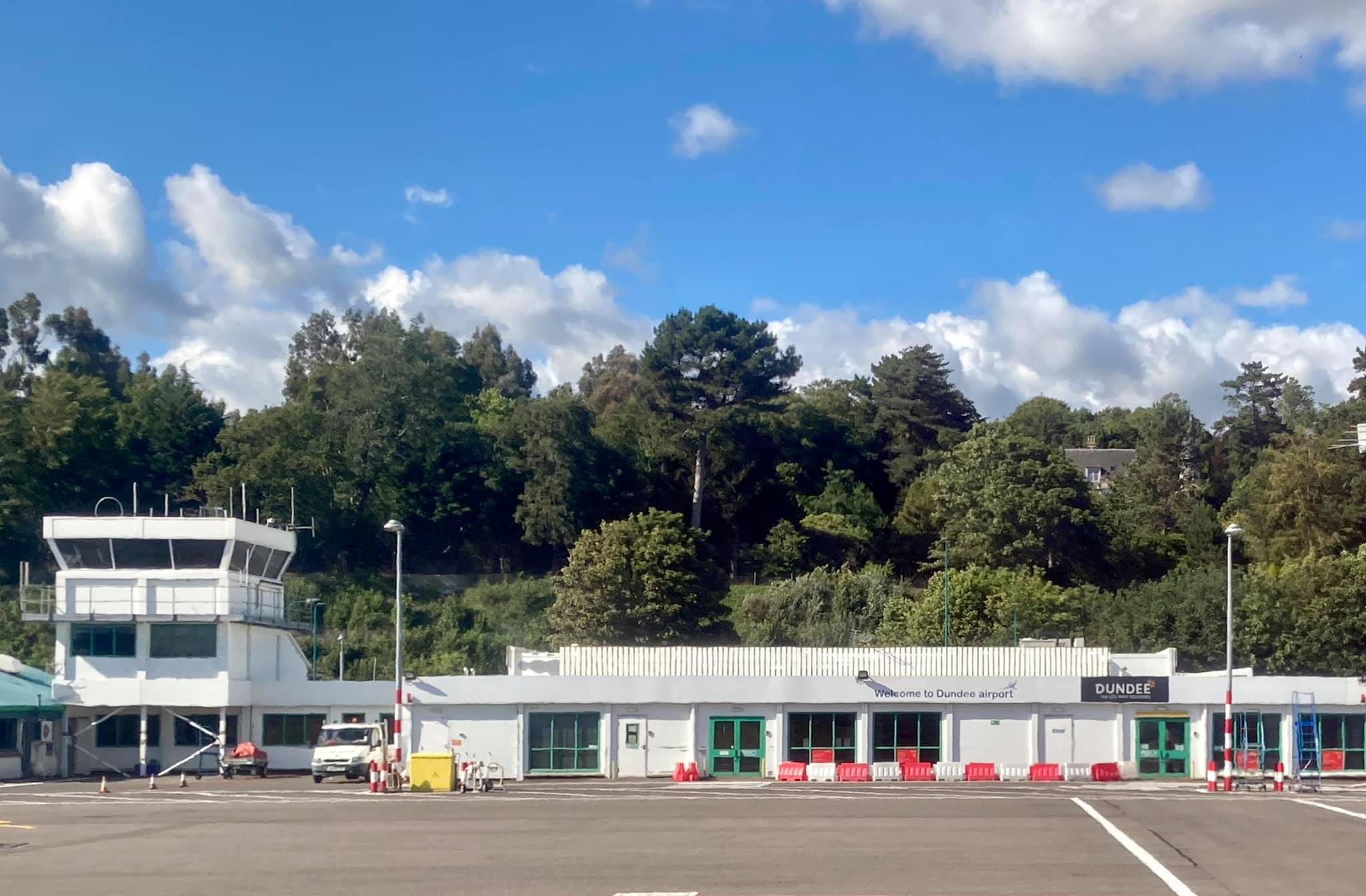 Pre Take off Image of the Terminal 2020